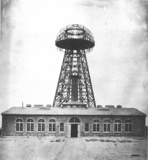 Nikola Tesla's Wardenclyffe wireless station, located in Shoreham, New York, seen in 1904. The 187 foot (57 m) transmitting tower appears to rise from the building but actually stands on the ground behind it. Built by Tesla from 1901 to 1904 with backing from Wall Street banker J. P. Morgan, the experimental facility was intended to be a transatlantic radiotelegraphy station and wireless power transmitter, but was never completed. The tower was torn down in 1916 but the lab building, designed by noted New York architect Stanford White remains.